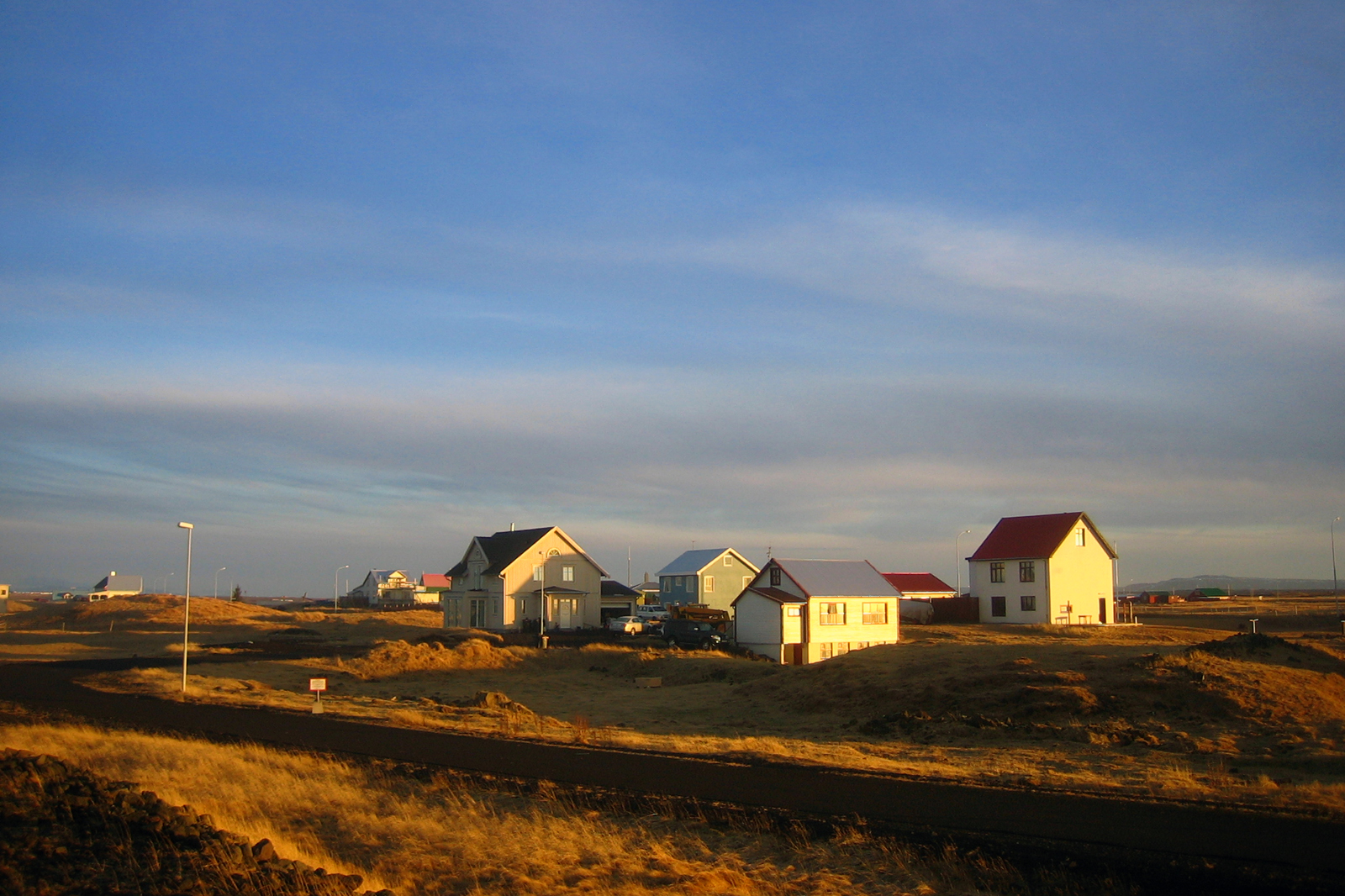 A tiny town ? village even ? on the Reykjavik peninsula.